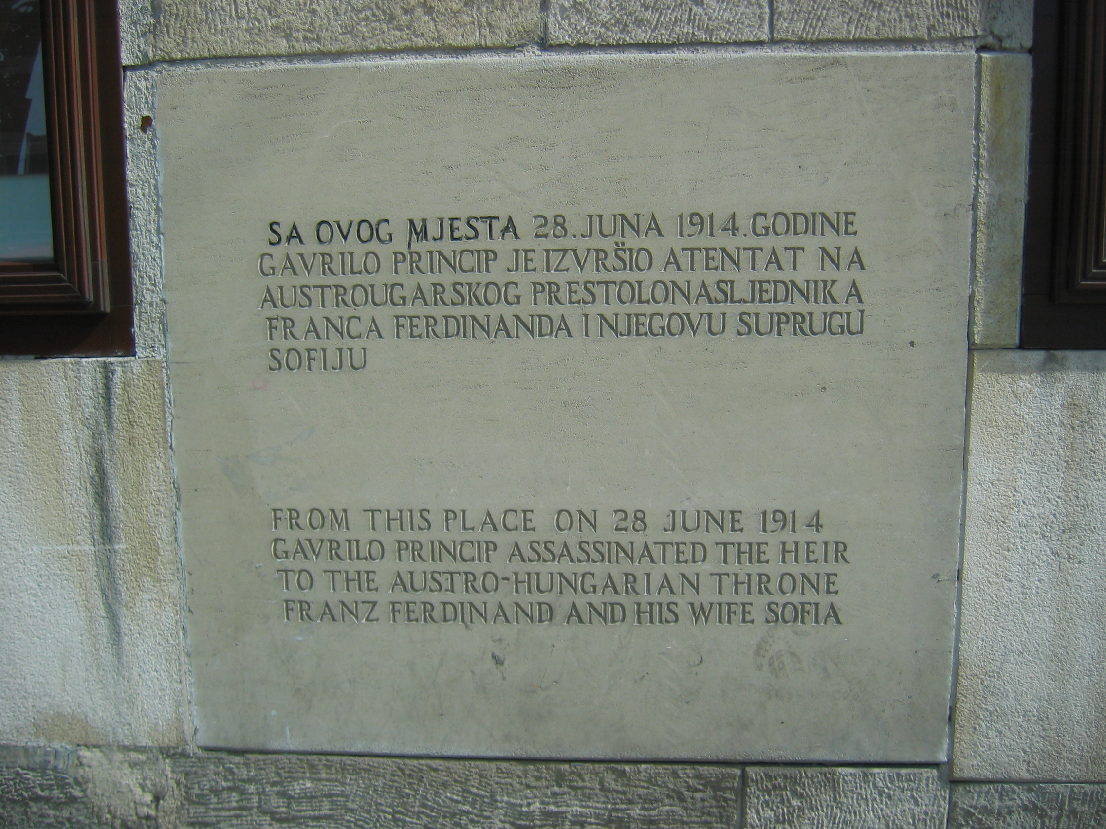 Memorial plaque at the location of the Sarajevo assassination by Gavrilo Princip.